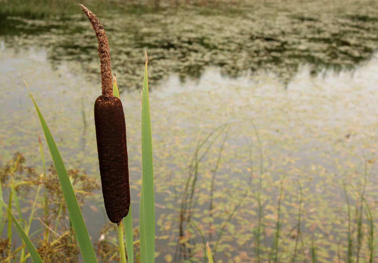 Russia, Nature of Yaroslavl Oblast, Typha latifolia